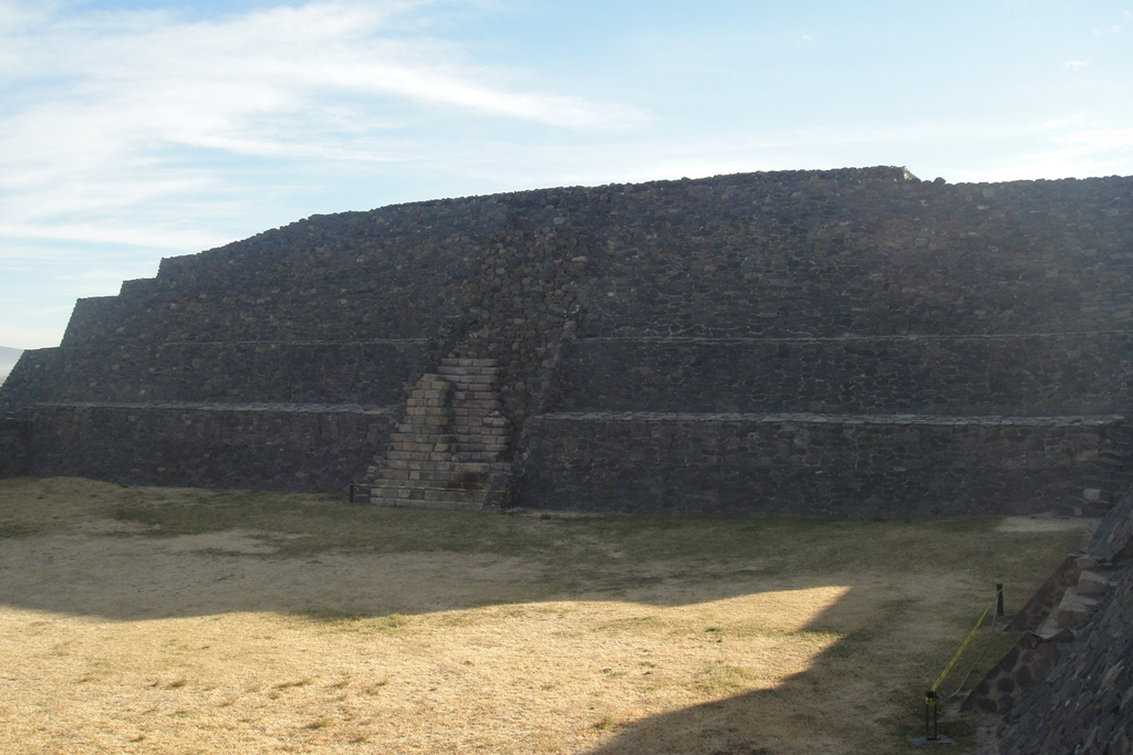 Peralta Double Structure west view